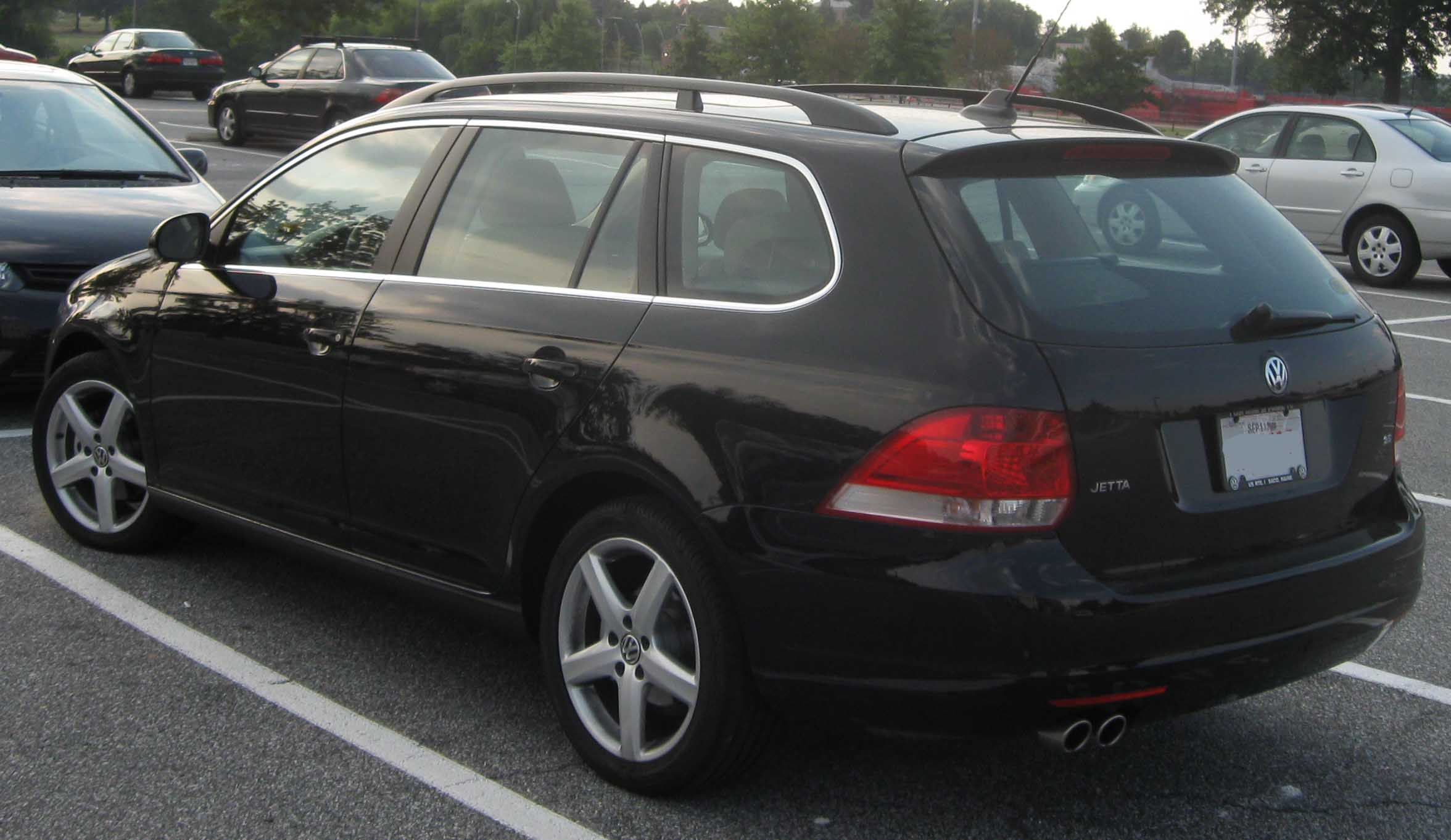 2009 Volkswagen Jetta photographed in College Park, Maryland, USA.